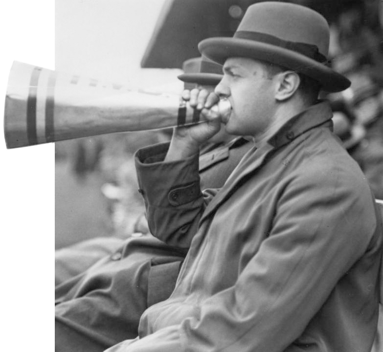 Dutch football player Dolf van Kol encouraging the Dutch National team by blowing a horn.